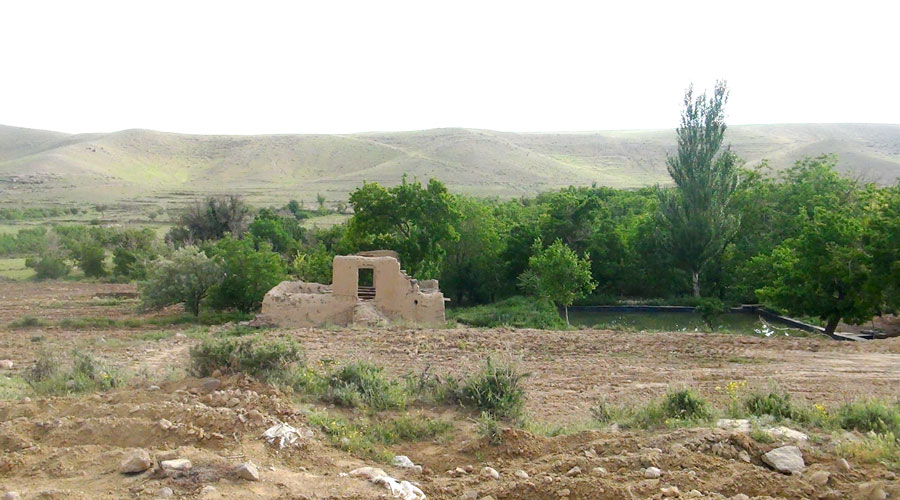 روستای تورامون ممقان